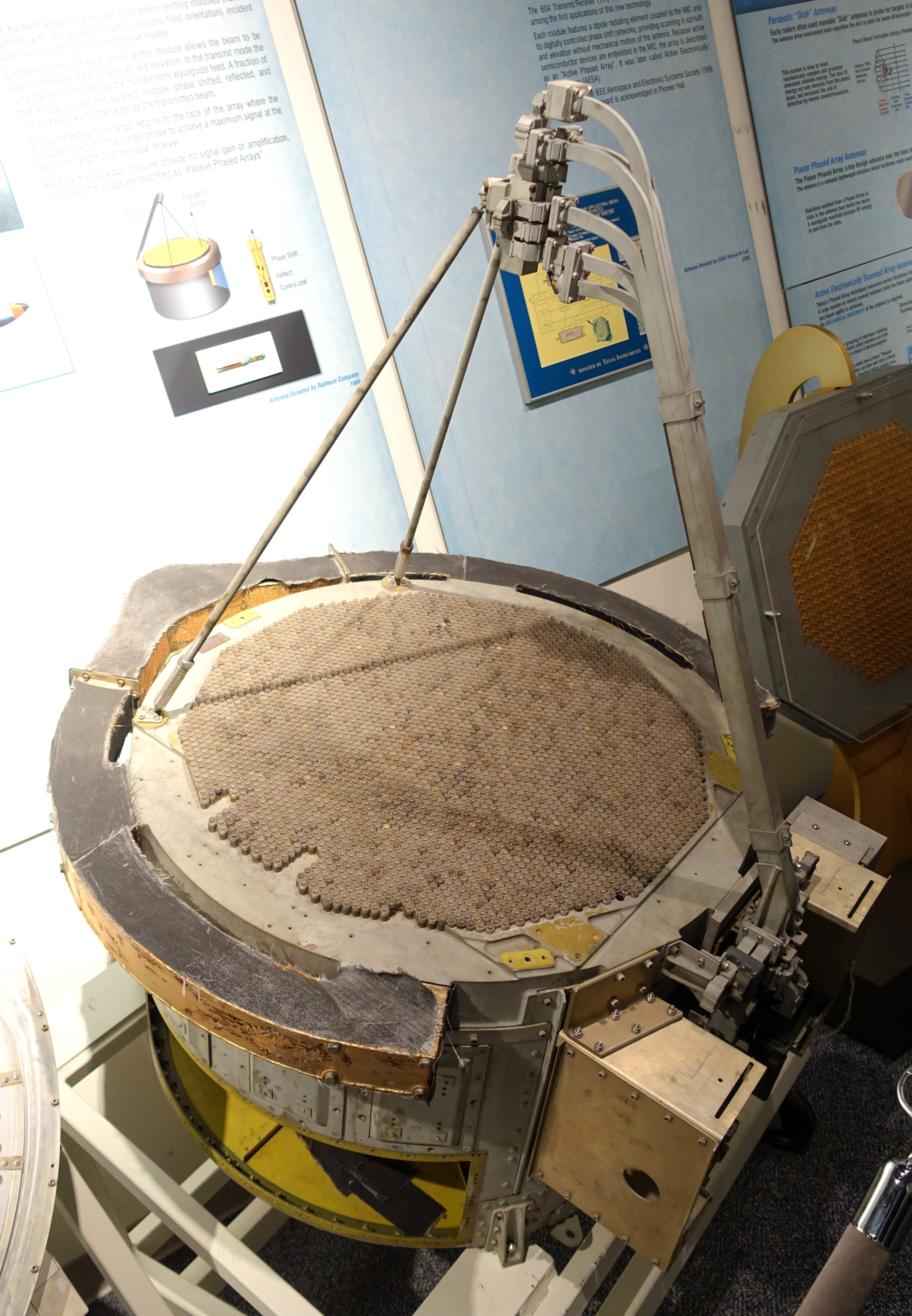 Exhibit in the National Electronics Museum, 1745 West Nursery Road, Linthicum, Maryland, USA. All items in this museum are unclassified. The museum permitted photography without restriction.